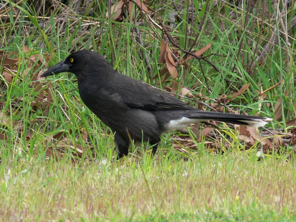 Black-winged Currawong (Strepera versicolor melanoptera), near Robe, South Australia